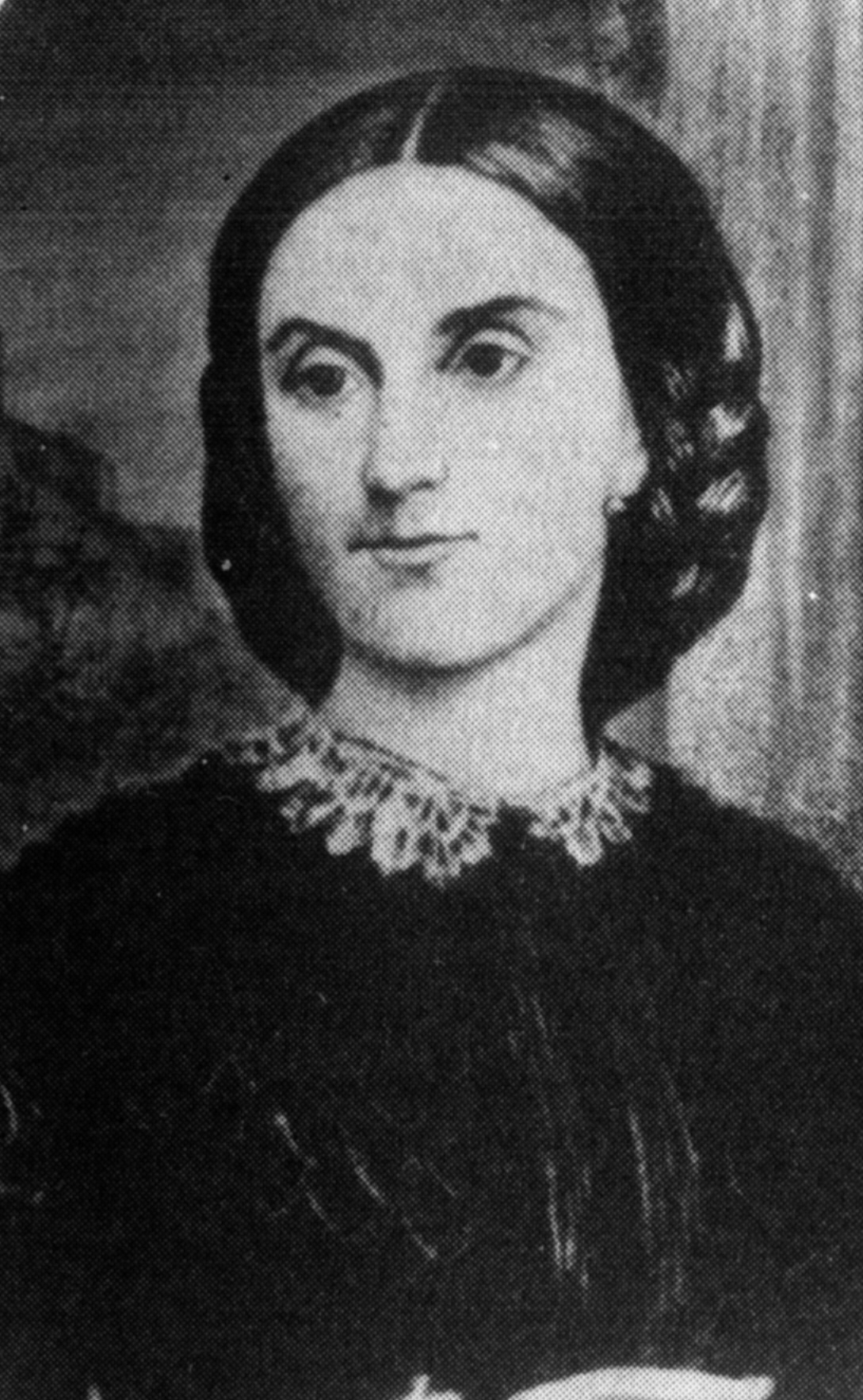 Portrait of Elena Cuza, wife of Romanian Domnitor Alexander John Cuza